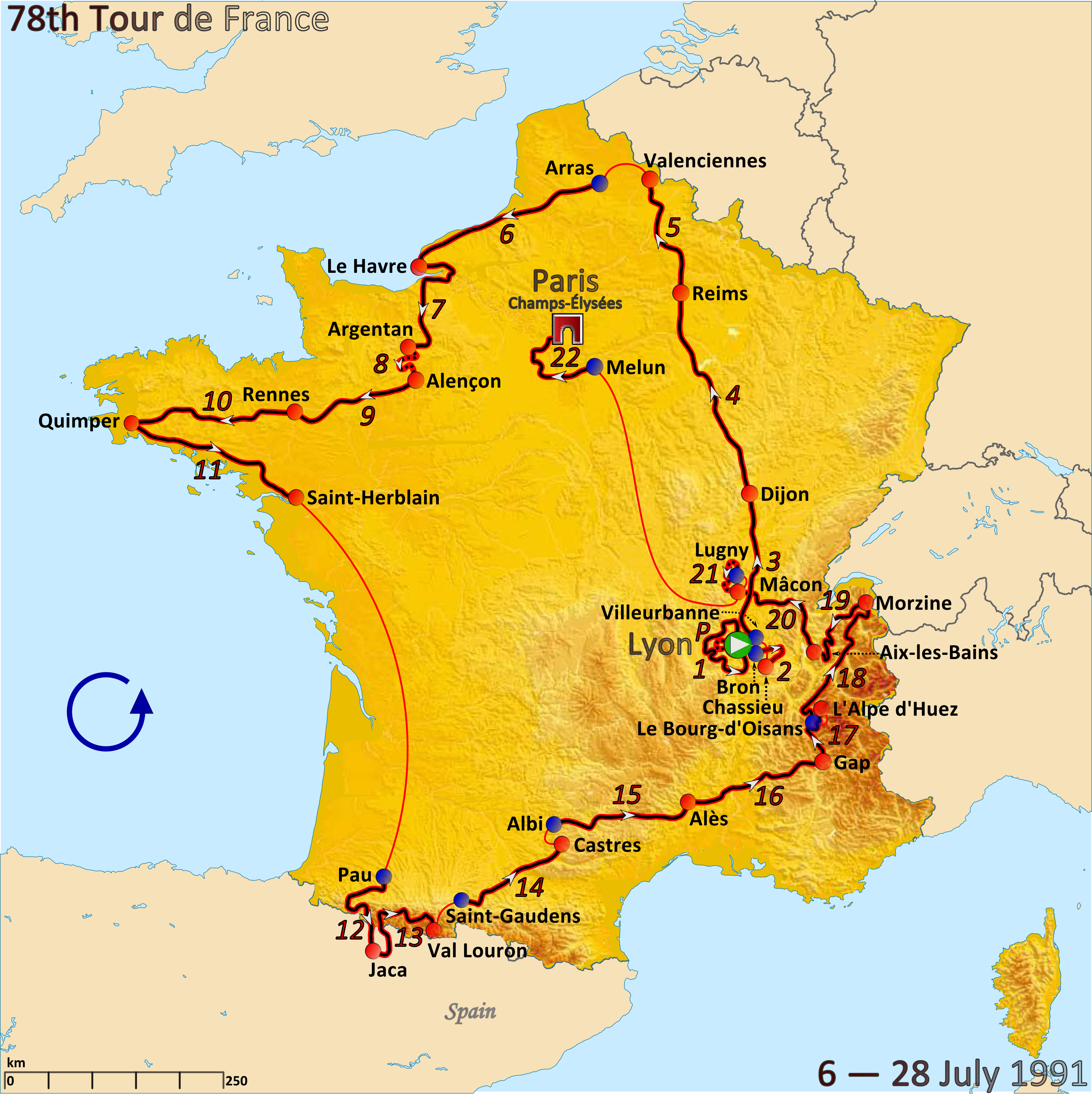 Map of the 1991 Tour de France created in Inkscape